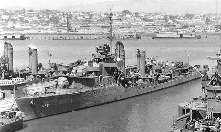 USS Preston DD-379 1942 at Mare Island Navy Yard